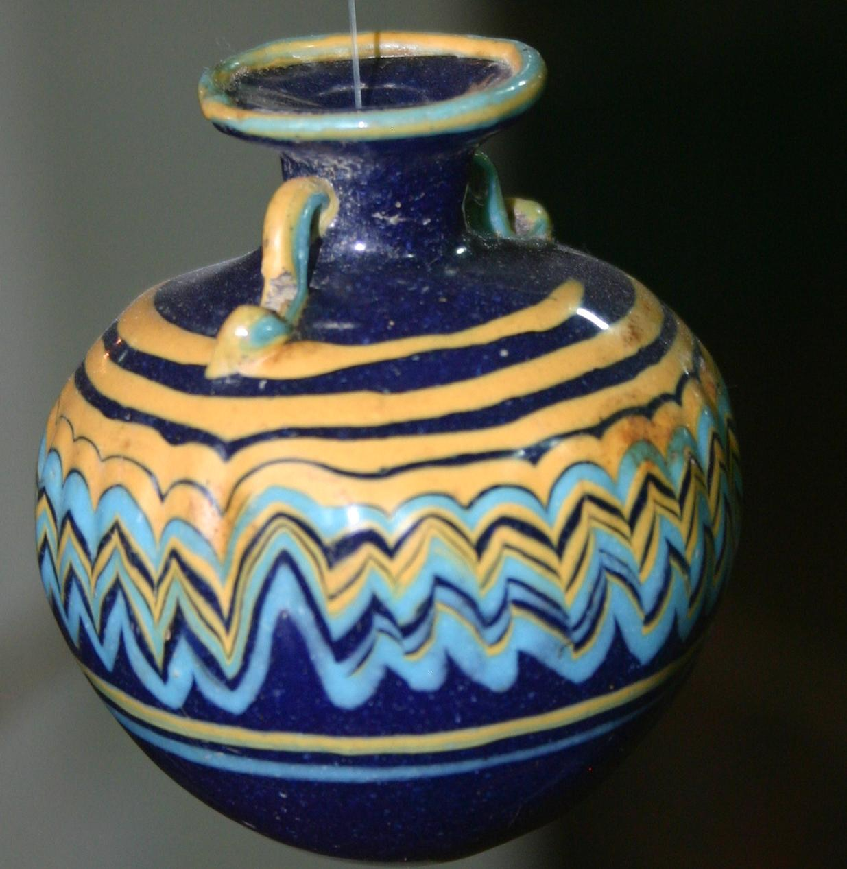 with thanks to the Batumi archaeological museum for allowing photography